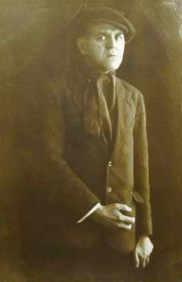 "Le Roi de Excentrique" - russian poet, composer, chansonnier Mikhail Savoiarov (postcard ~ 1915)